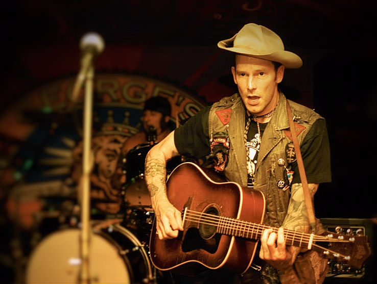 Hank Williams III performing at George's in Fayetteville, AR in 2010